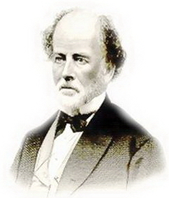 Matthew Fontaine Maury image cleaned; perspective corrected.